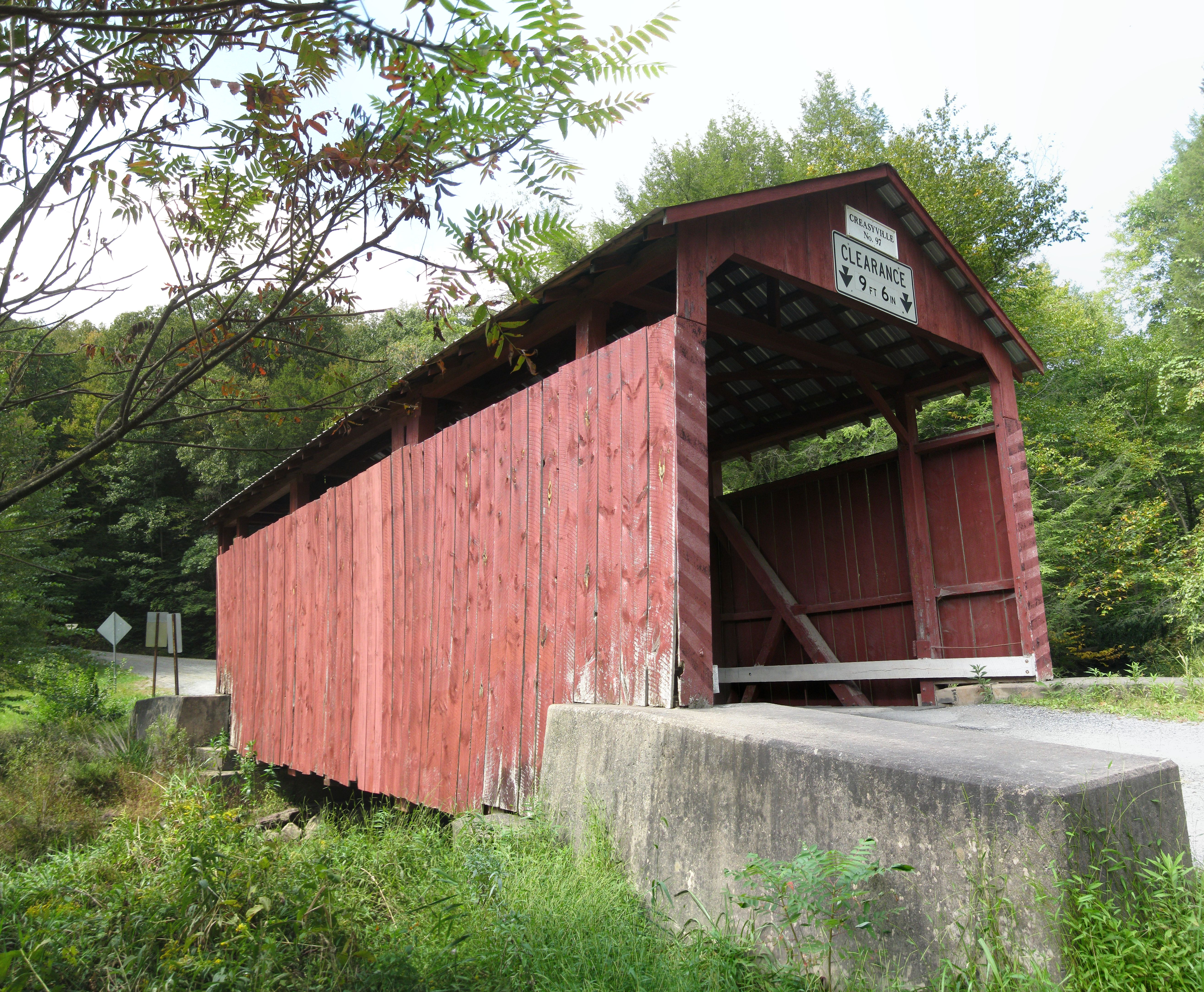 Creasyville Covered Bridge built in 1881 over Little Fishing Creek between Jackson and Pine Townships in Columbia County, Pennsylvania in the United States.